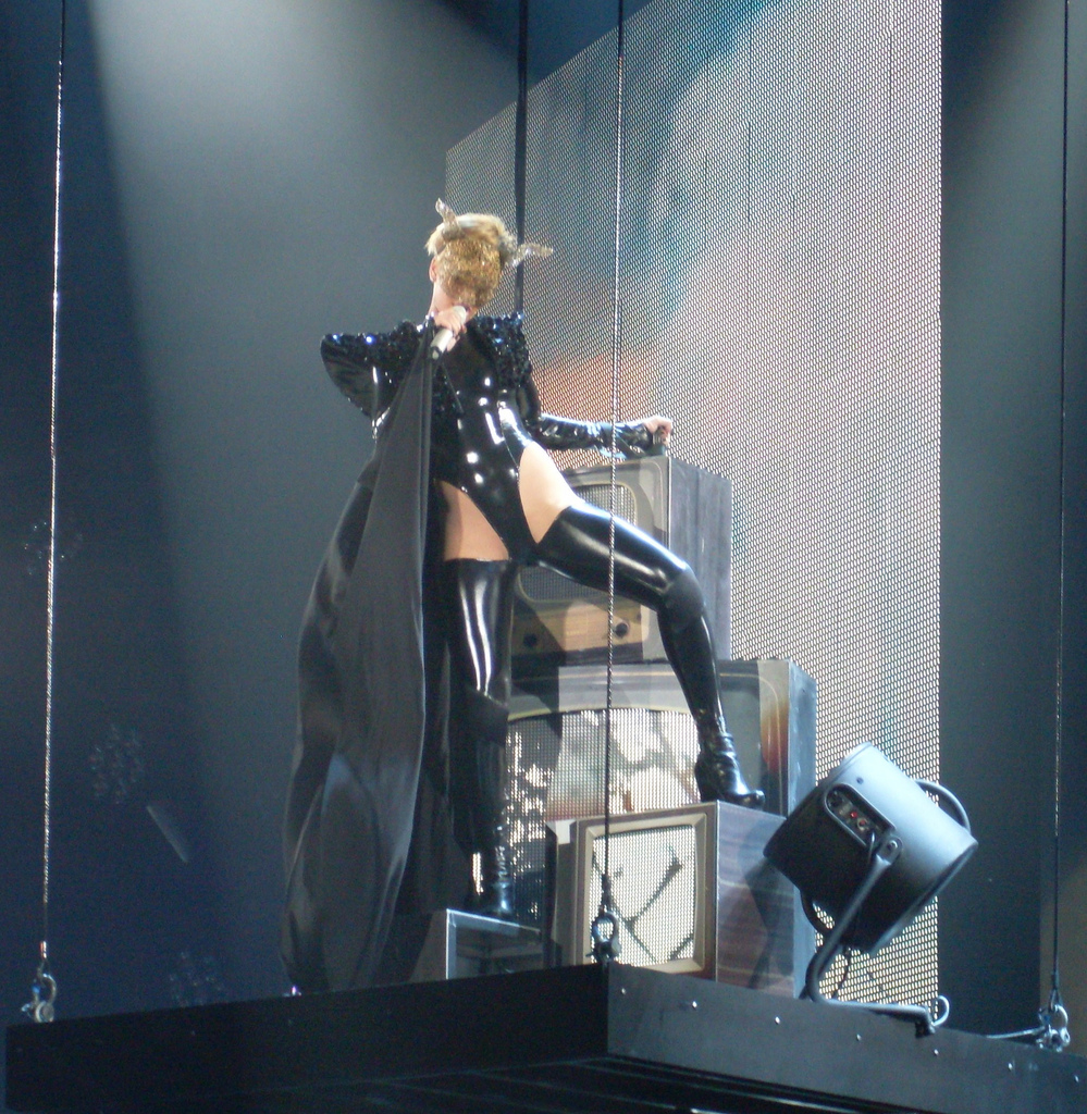 Rihanna in her Last Girl on Earth Tour